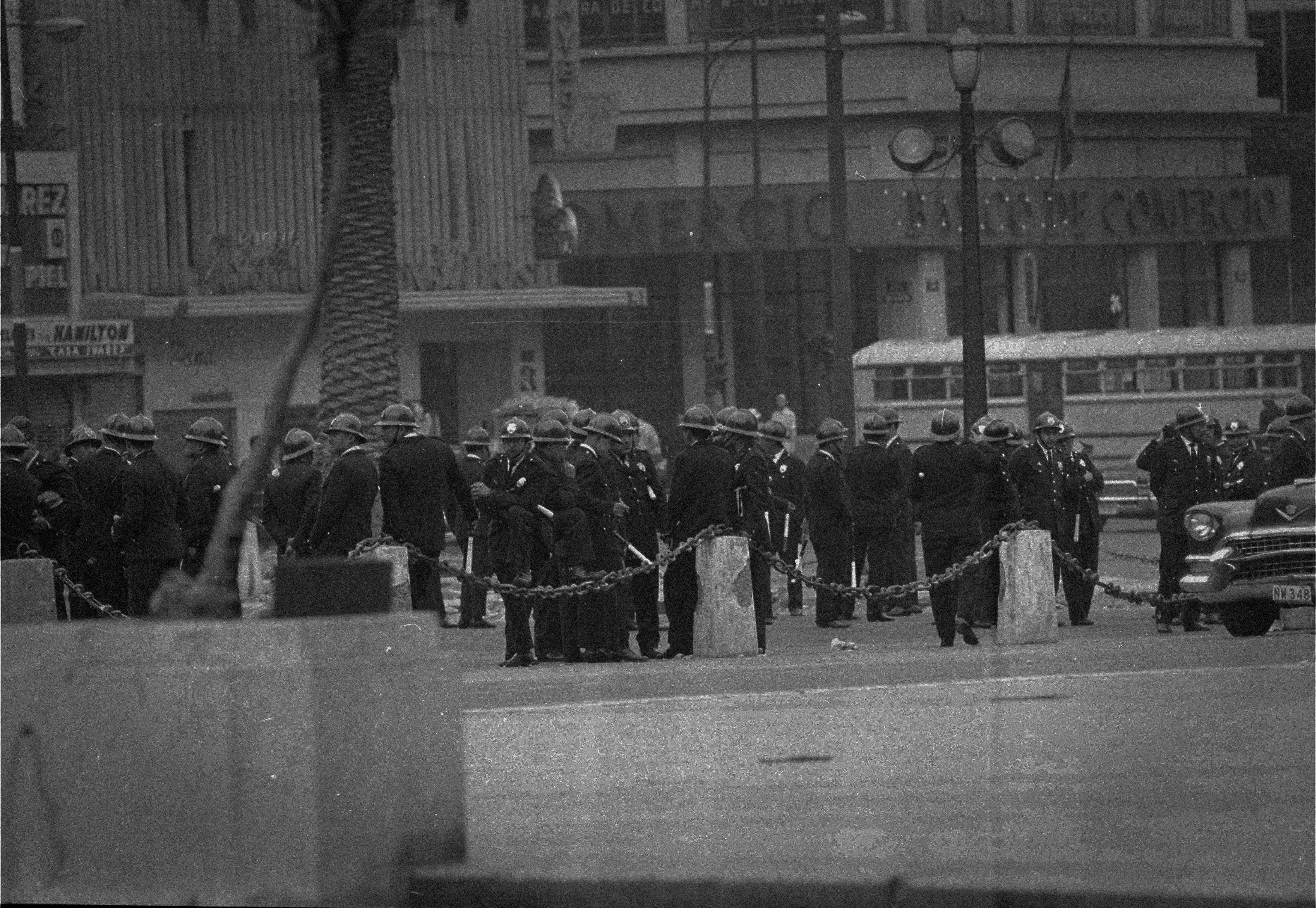 Images of Mexico City Student Movement, October 1968.